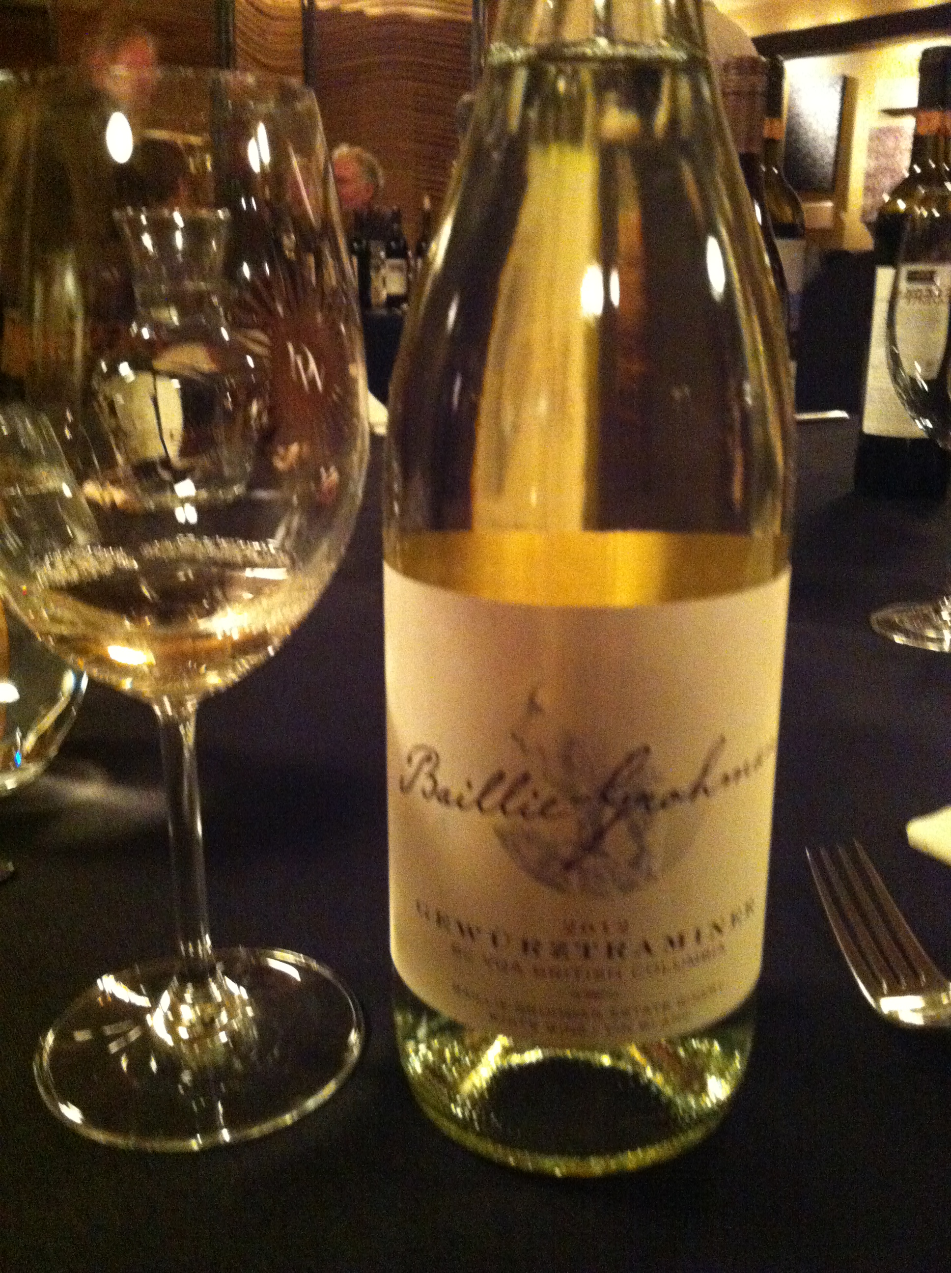 Canadian Gertie from British Columbia